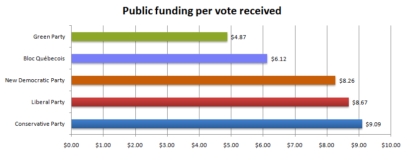 Public funding of Canadian federal political parties in 2009 per vote received in the last election.